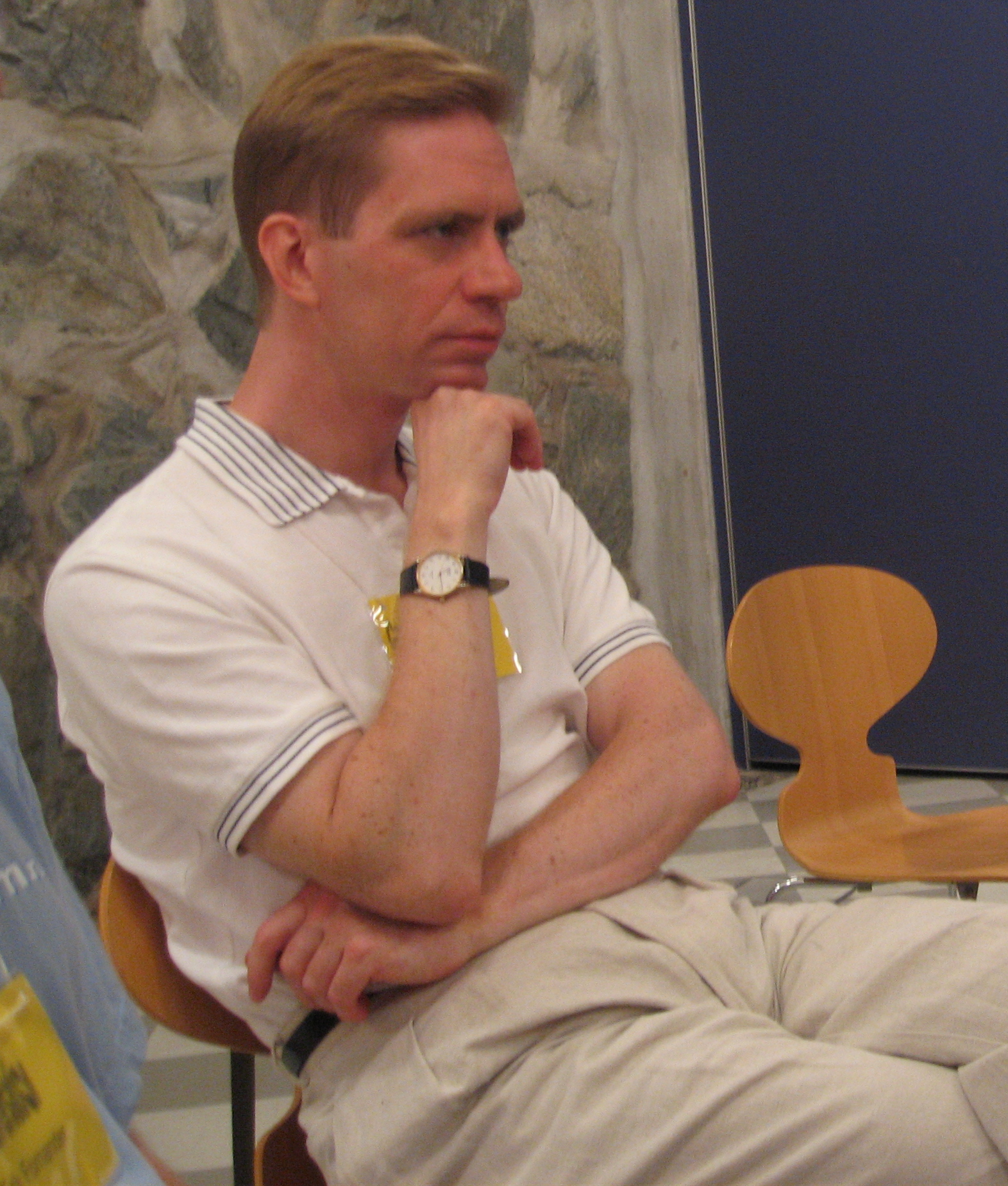 Johan Frick at Conversation 2006.